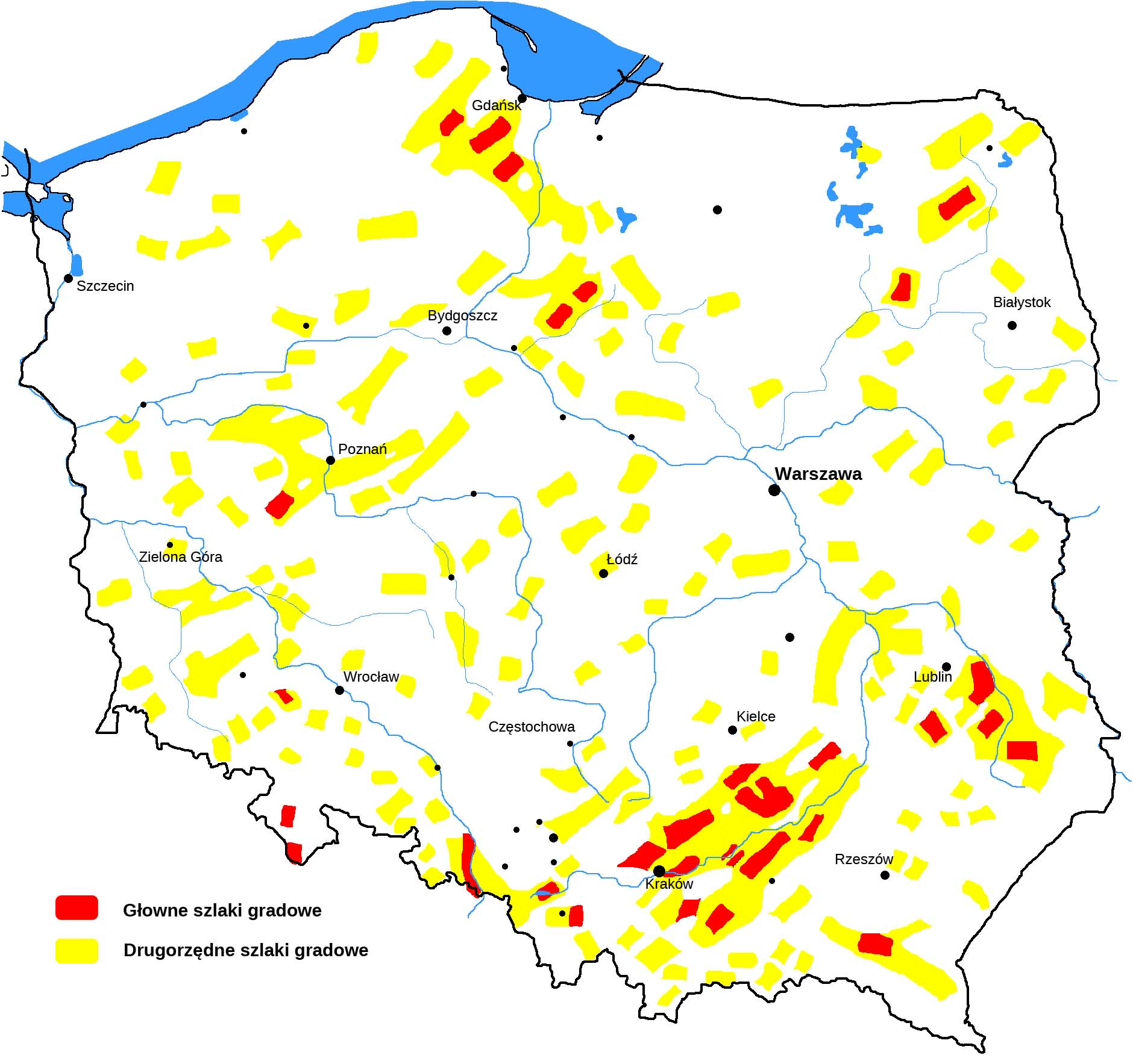 Hail trails Poland